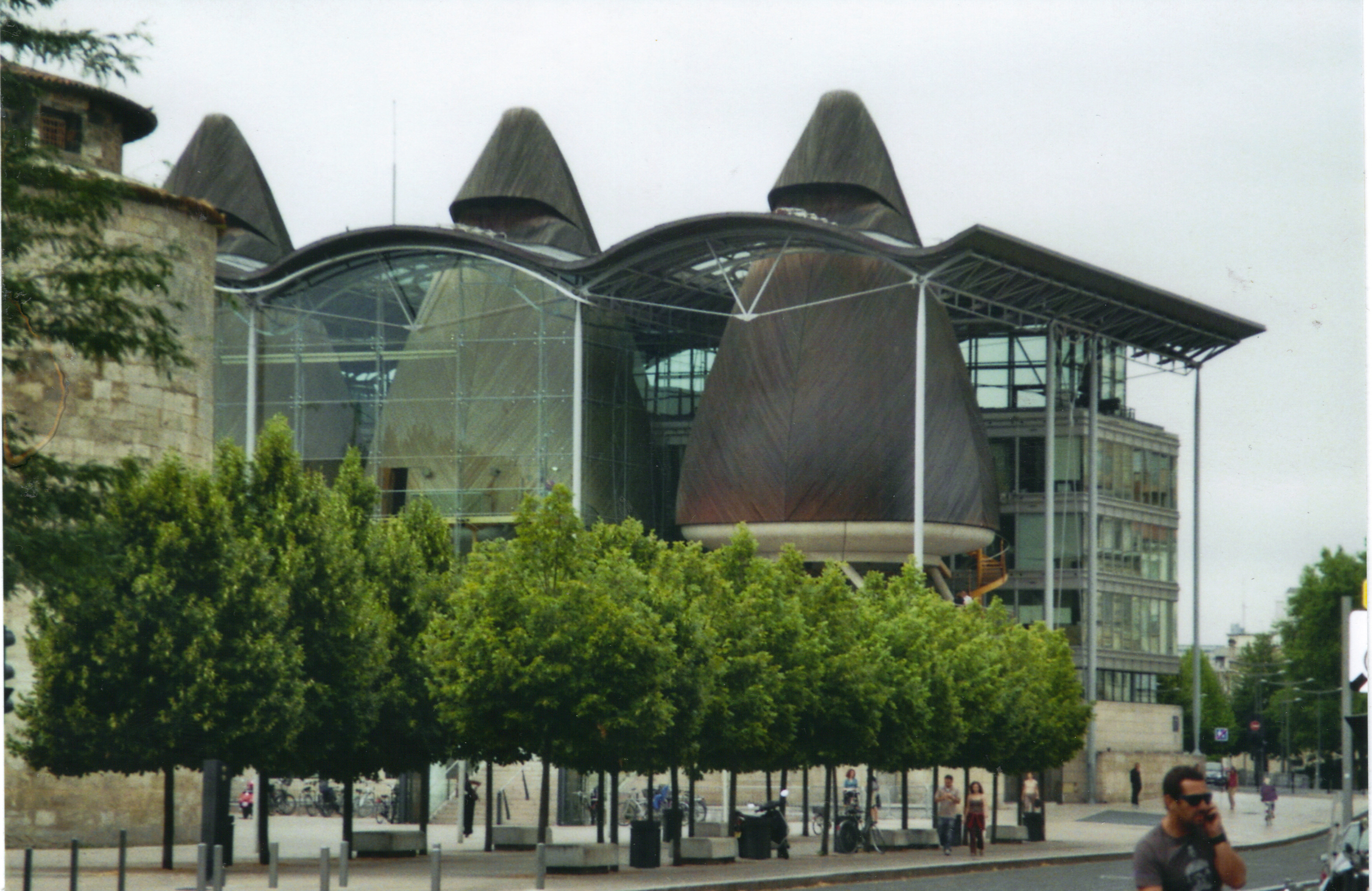 New wing of Bordeaux's Palais de Justice, architect Richard Rogers